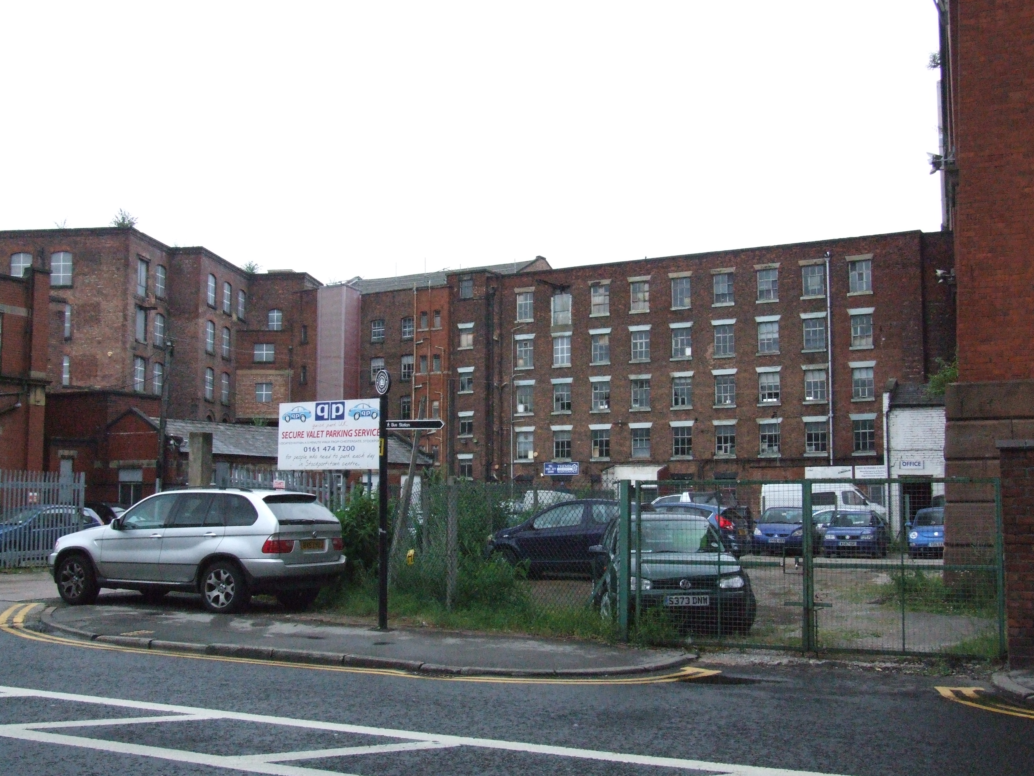 Stockport. Stockport Viaduct was built over Weir Mill. Weir Mill was built before 1800 and was powered by water. In 1892 it had 60,000 spindles and 900 looms